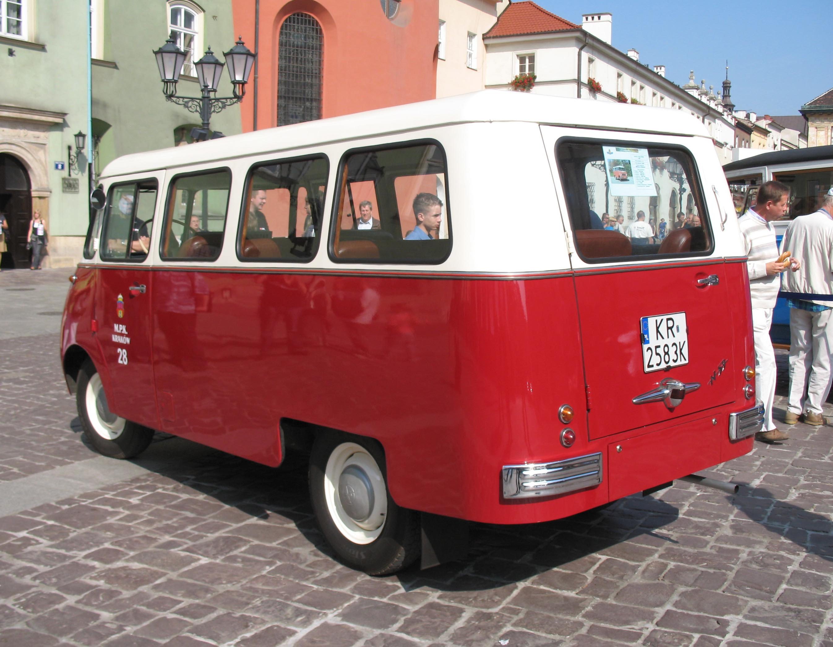 Nysa N59M microbus (#28) in Kraków, Poland. Year built 1959, MPK Kraków operator.